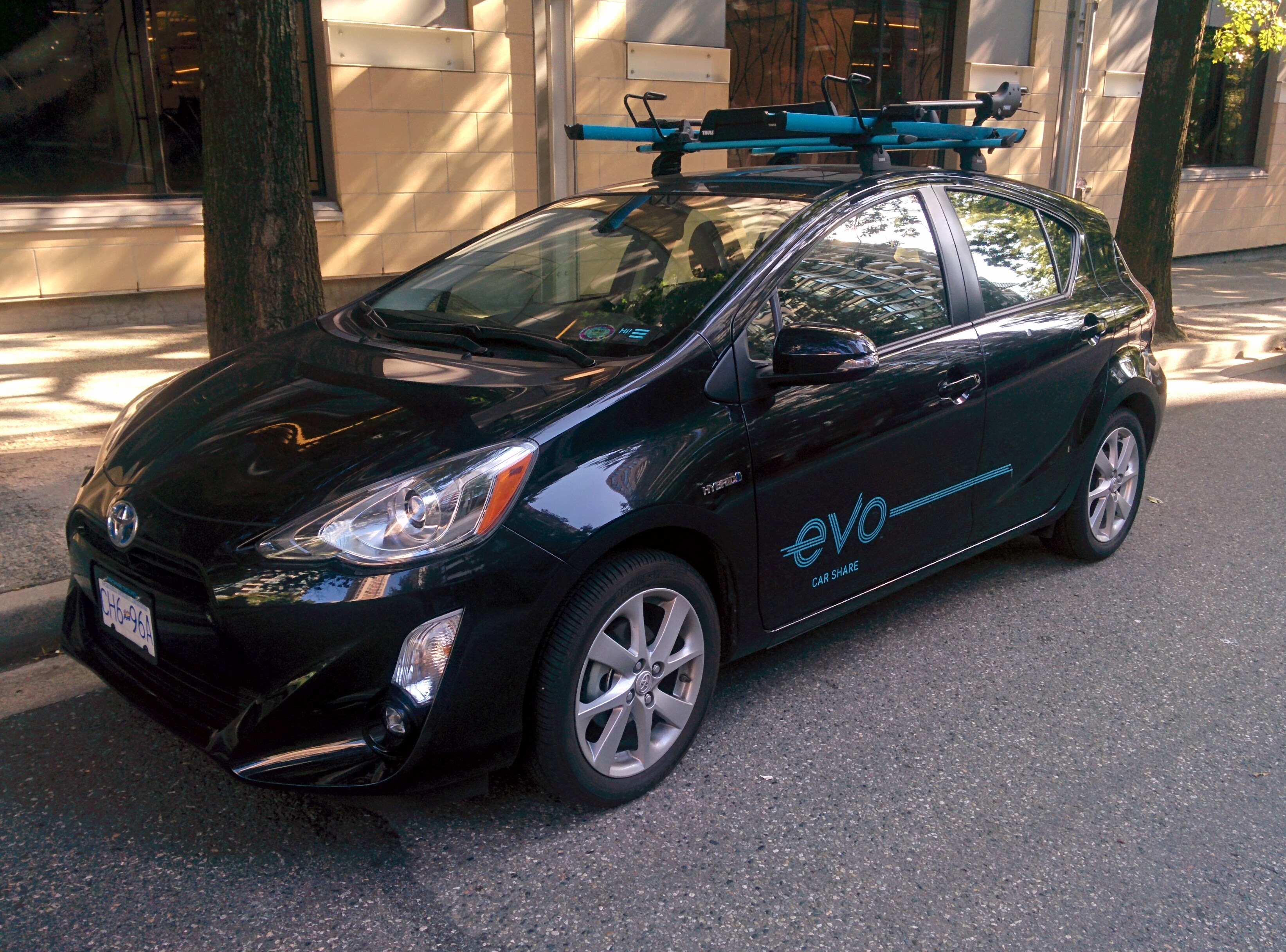 A typical Evo Car Share car: A Toyota Prius c with the roof rack to accommodate bikes and skies.